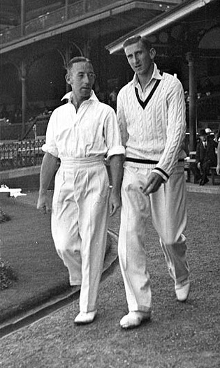 Picture of Australian cricketers Lindsay Hassett and Ernie McCormick at the Sydney Cricket Ground in the late 1930s